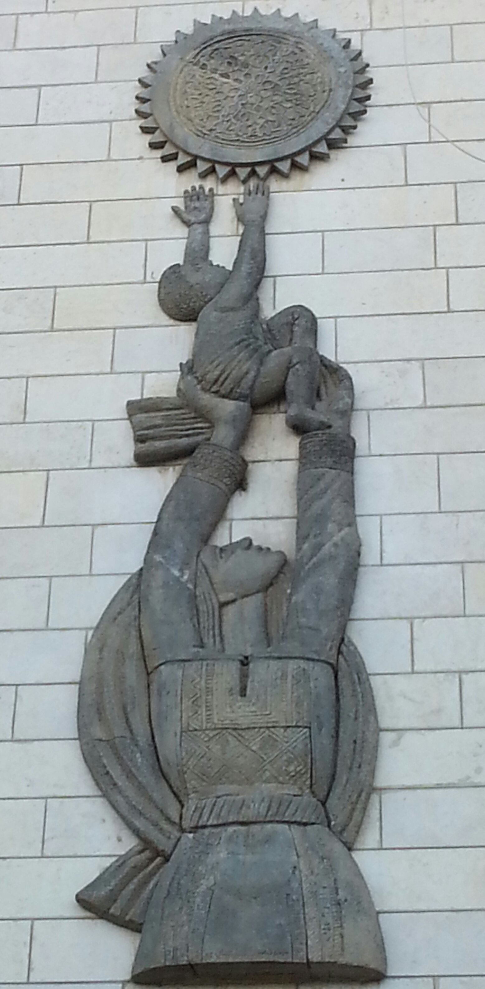 A Mural on the wall of Inash Al-Usra, albireh, palestine, by Sliman Mansour and Nabil Anani